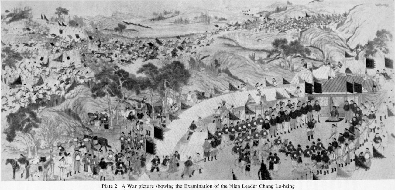 A scene of the Nien Rebellion (1851–1868). From "Victory over the Nian", a set of eighteen paintings.